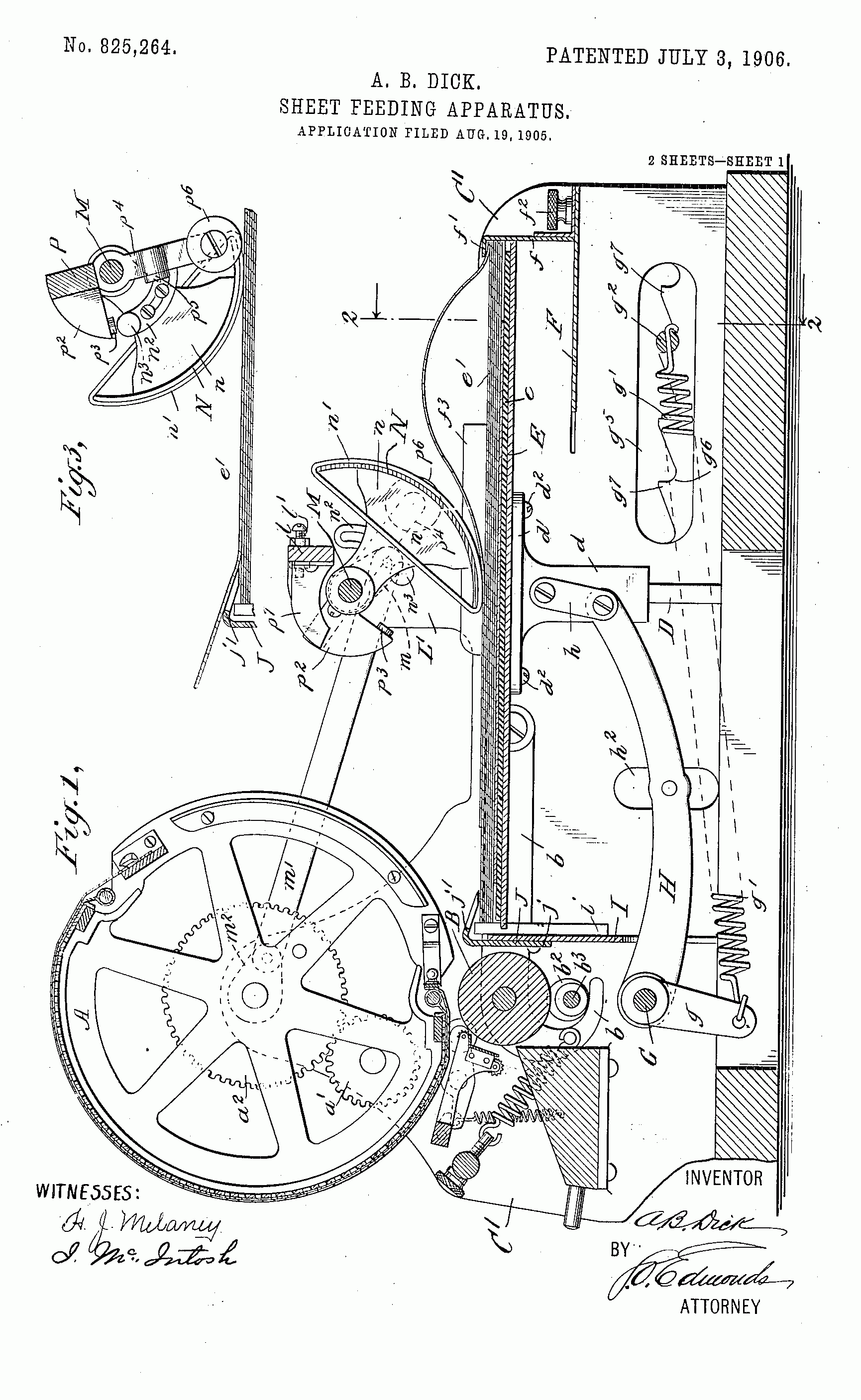 This file is a picture of a patented mimeograph machine involvbed in patent infringement litigation in WP article Henry v. A.B. Dick Co.